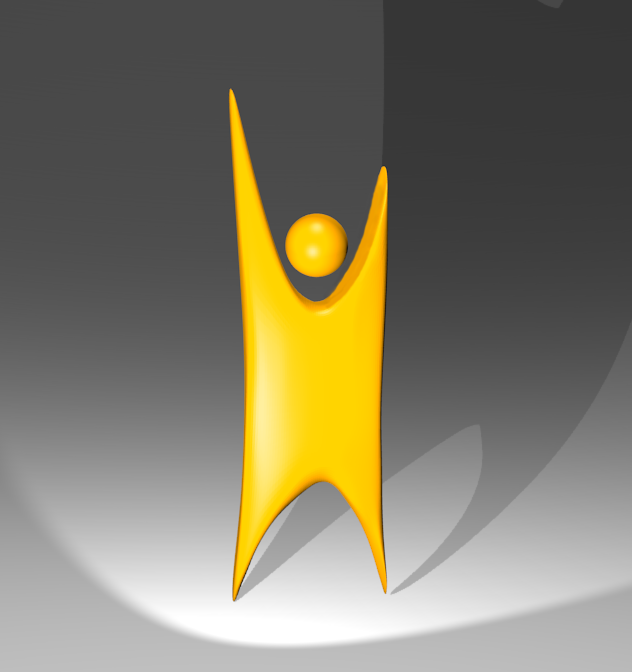 The happy human, the secular humanist logo Cropped to fit only the logo